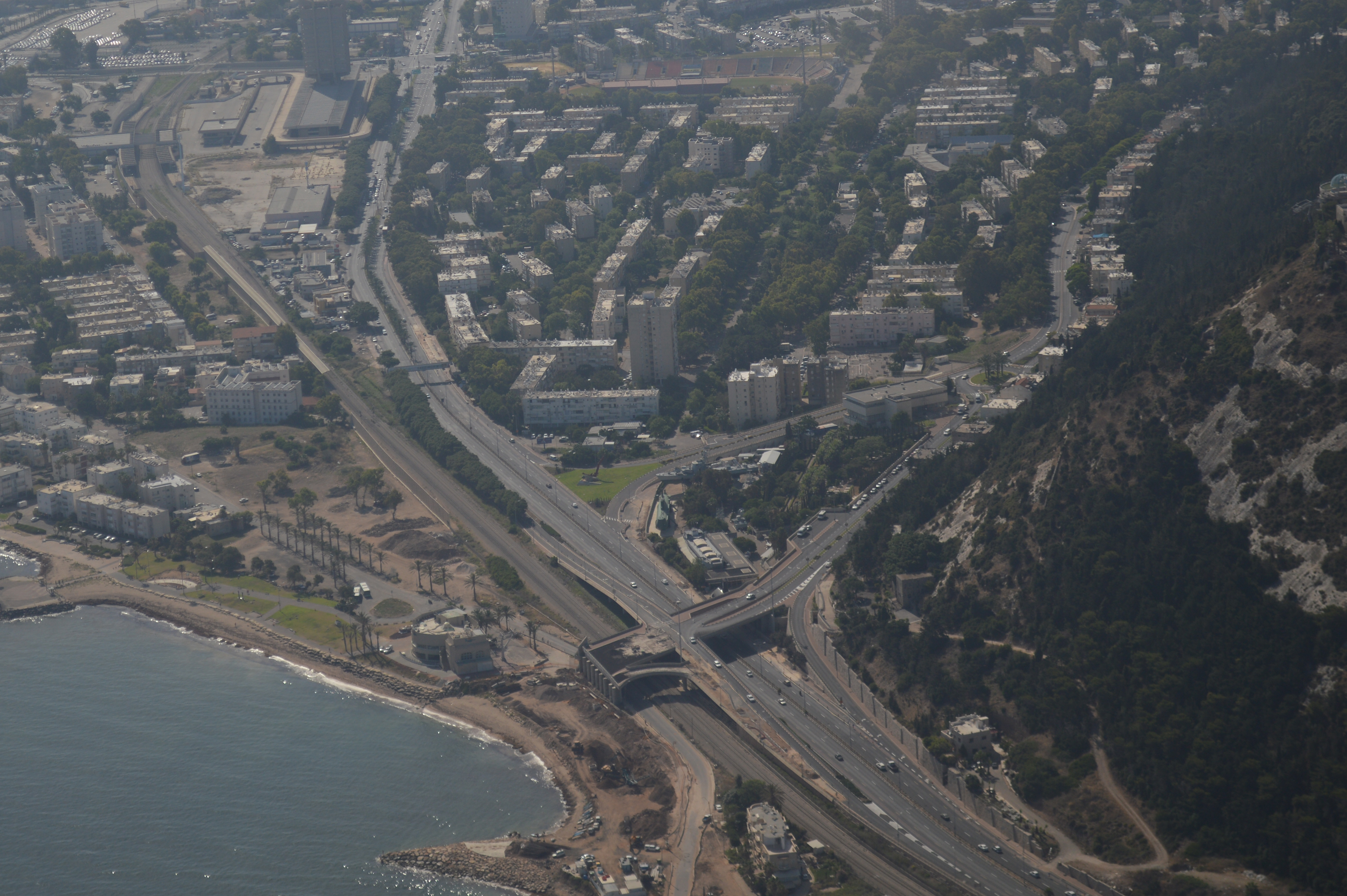 Aerial View of Haifa